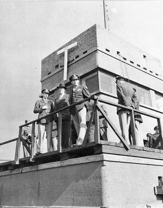 he 4th Fighter Group's control tower at RAF Debden, Essex, England (Station 156) on September 25,1943.